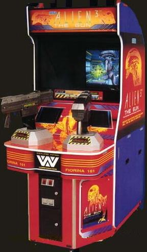 Arcade game and cabinet for Alien 3: The Gun (1993) from collection of the uploader.